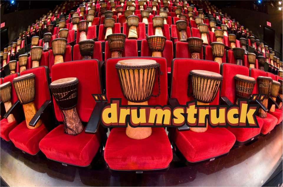 Drum Struck Drums on Seats